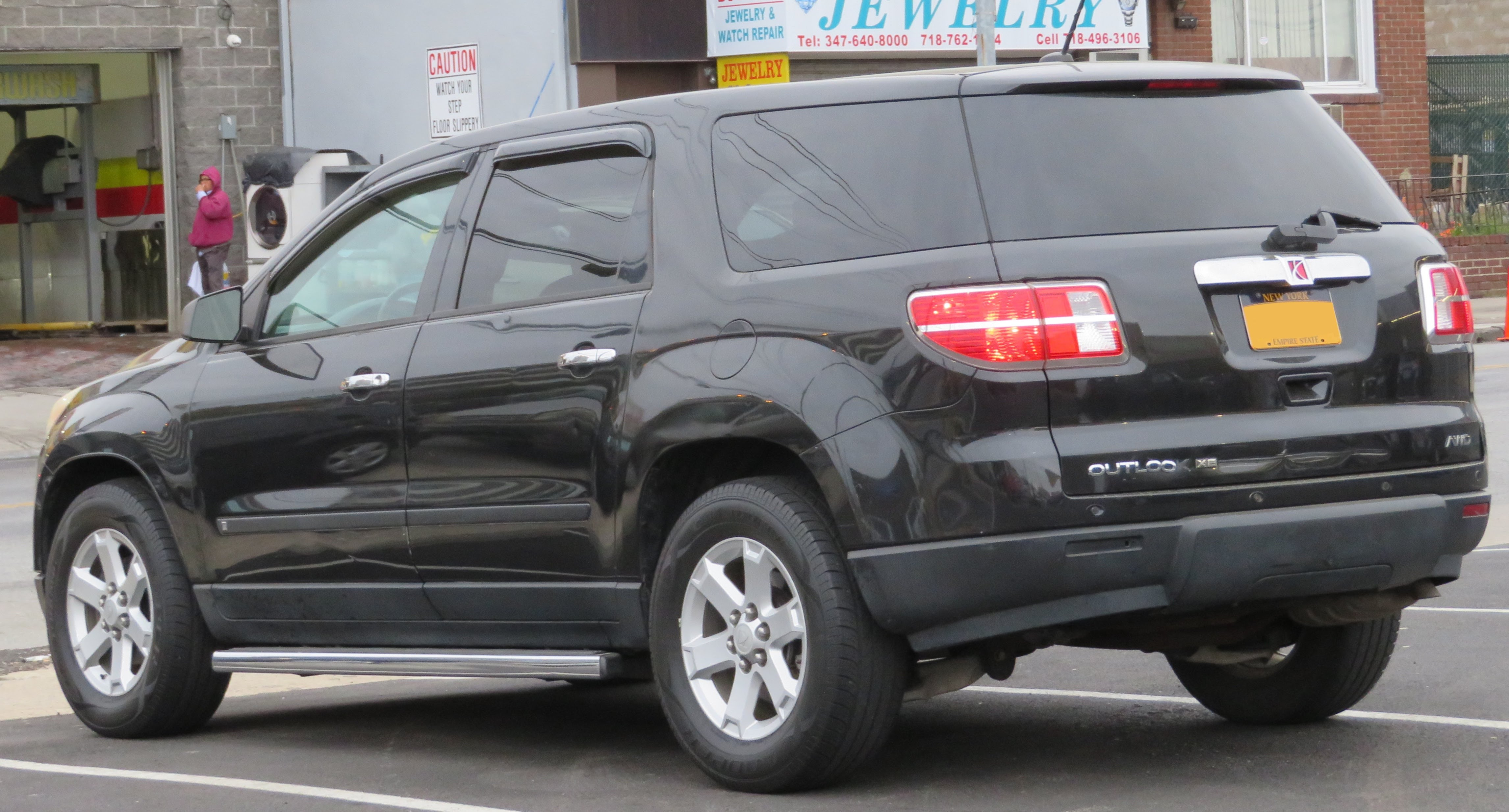 In Queens, New York